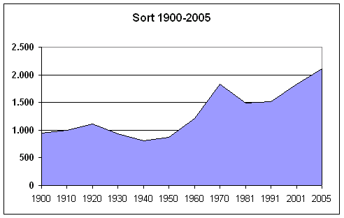 Sort's population, Lleida (Lérida, Lerida), Spain, (1900-2005). Own work, given to PD. Source: Instituto Nacional de Estadística.